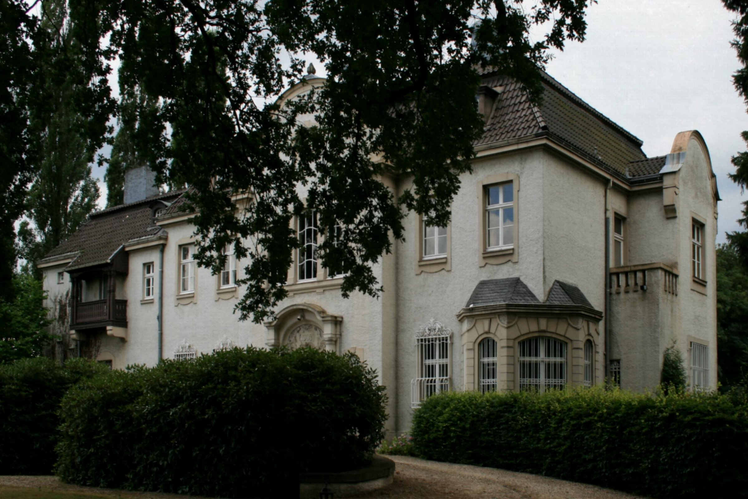 Cultural heritage monument No. P 014a in Mönchengladbach